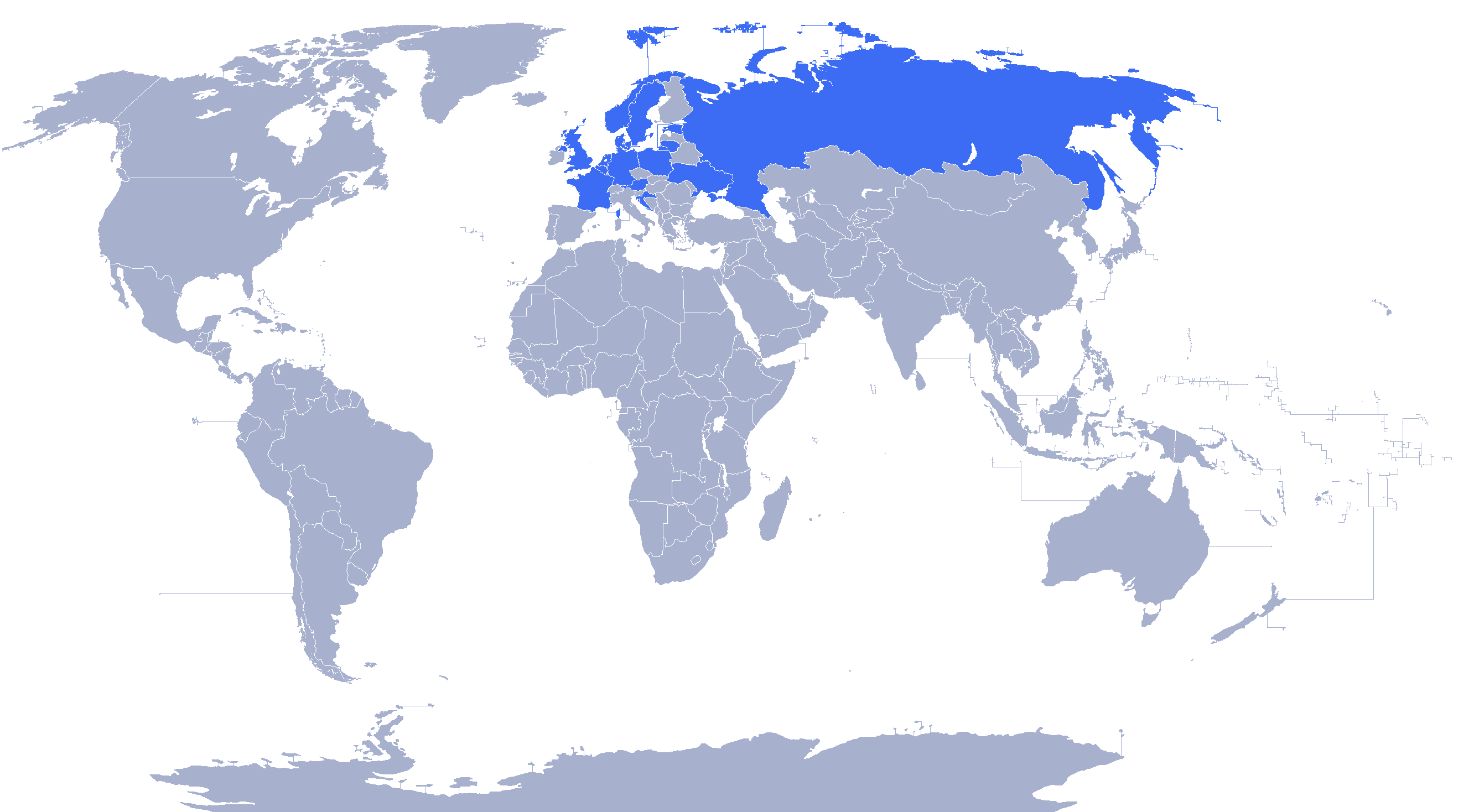 Map of flight destinations of Nordica Airlines 2017